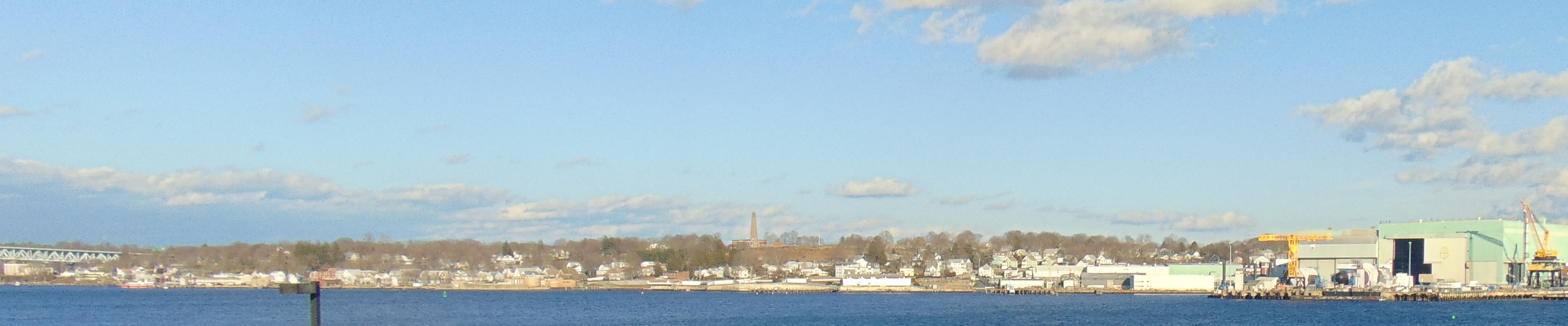 Groton (city), Connecticut from Fort Trumbull across the Thames River